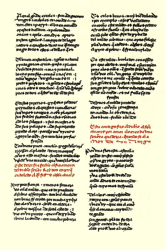 Photo of "Cancionero de Baena" (Juan Alfonso de Baena).